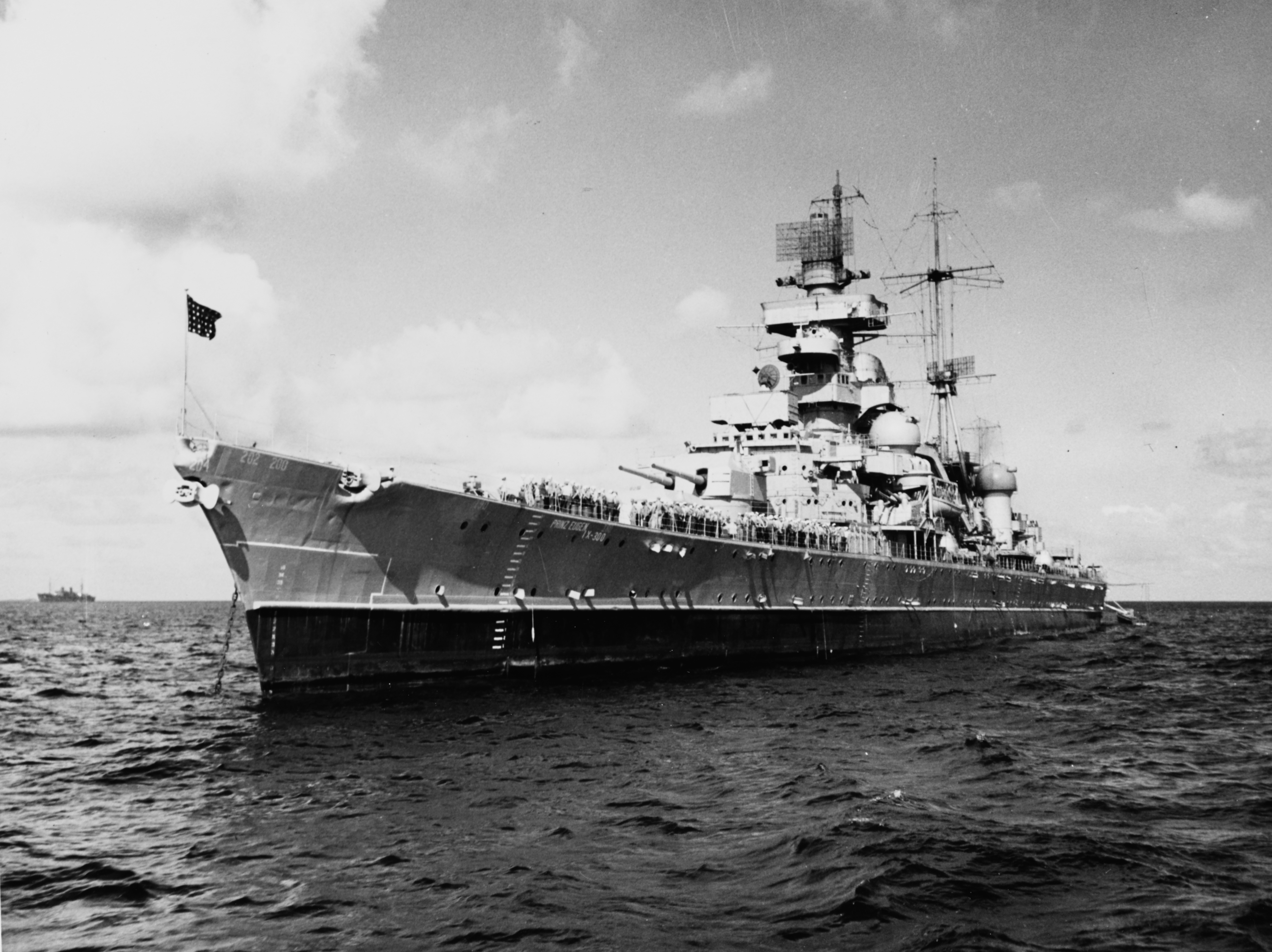 USS Prinz Eugen (IX-300), a former German heavy cruiser, ready for target duty in the operation Crossroads a-bomb tests, 14 June 1946. Note the radar van parked atop her bridge, and the German radars atop the director and mainmast.